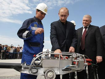 Russian Prime Minister Putin at the ceremony of launching the construction of the gas pipeline in Khabarovsk